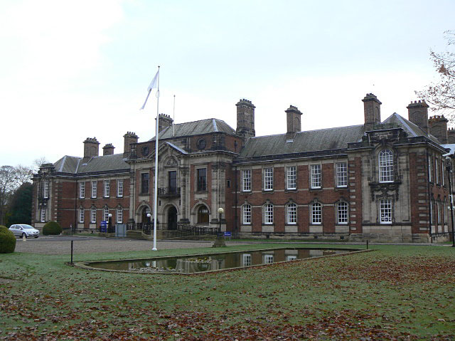 County Hall The main façade, facing west.